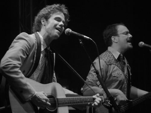 Photo by S.Malmrose